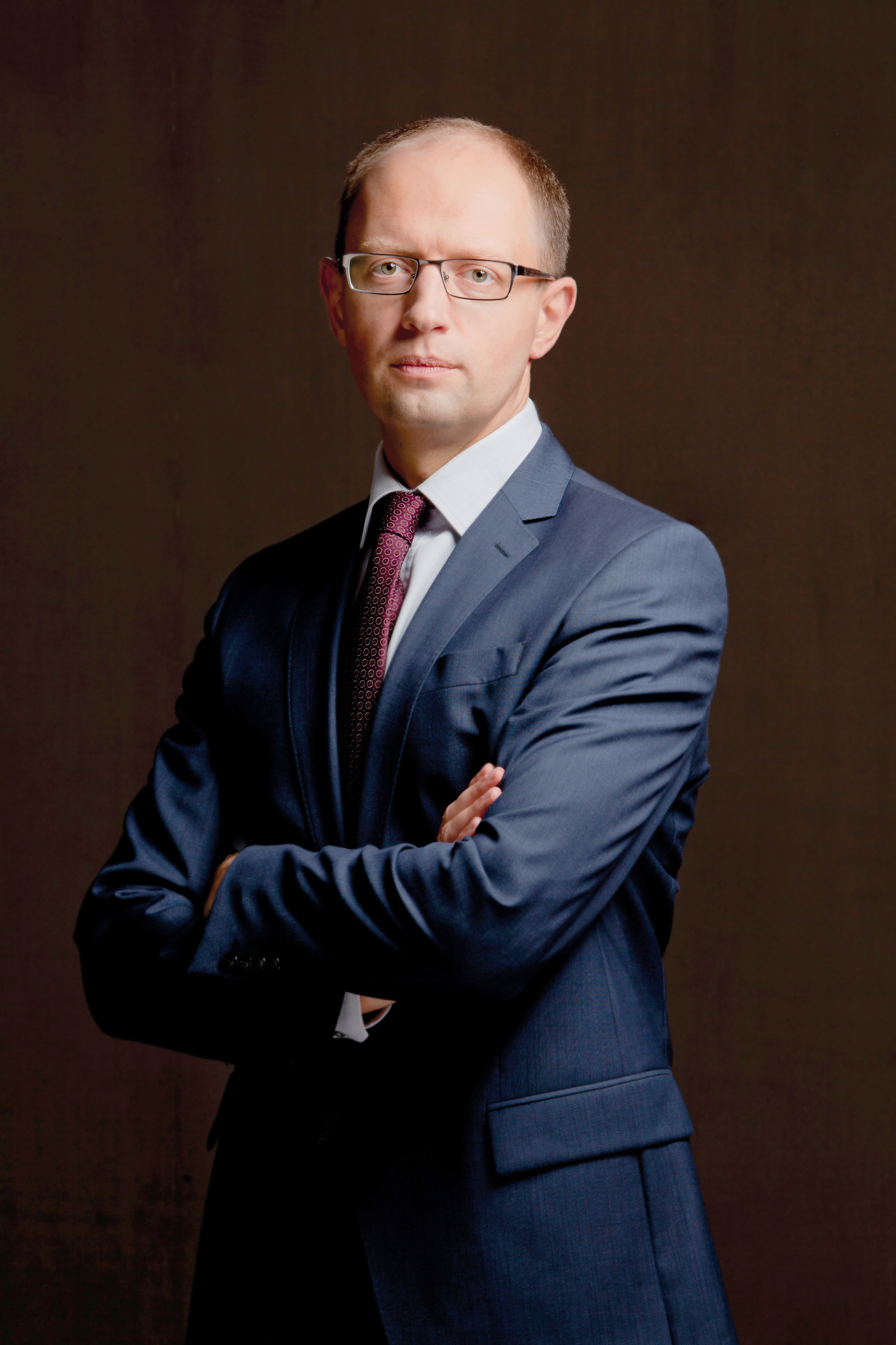 2011 portrait of Arseniy Yatsenyuk, Prime Minister of Ukraine since February 2014.